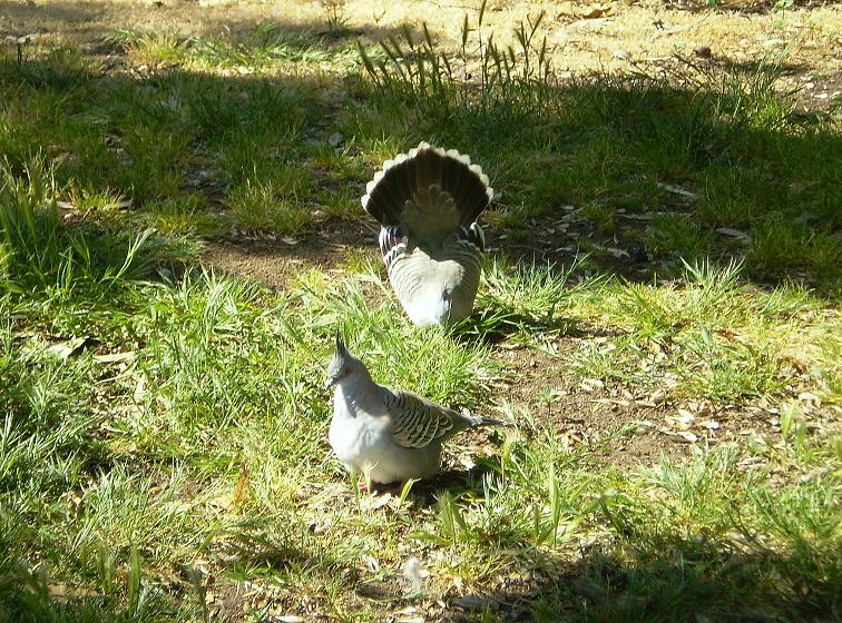 Australian Crested Pigeons (Rolas de Crista Australianas)